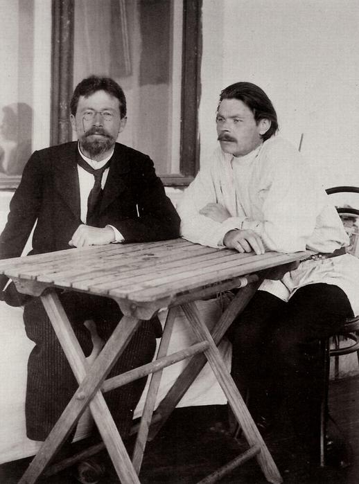 Anton Chekhov and Maxim Gorky in Yalta, 1900